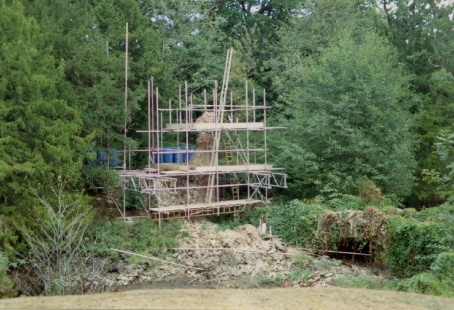 Bronsil castle, Herefordshire, England. A moated site with very little of the structure remaining. Efforts to consolidate the building material are taking place.